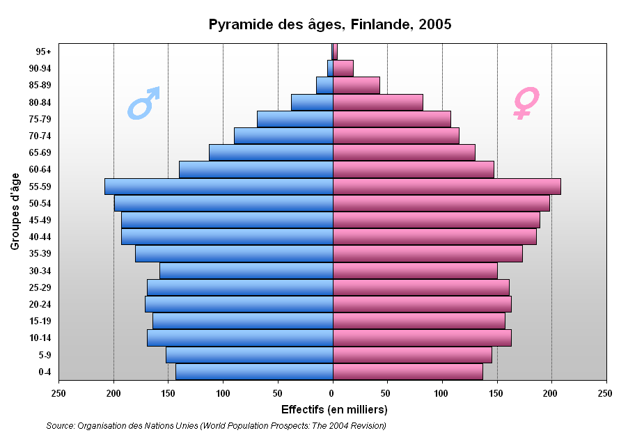 Finland Population pyramid, 2005